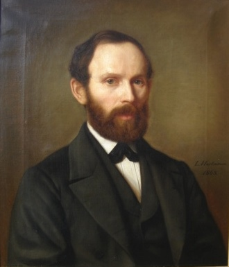 Portrait of the photographer Heinrich Tønnies